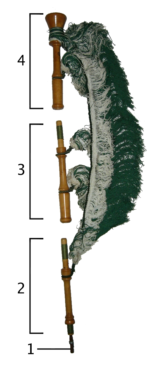 Asturian pipe bass drone (morphology)